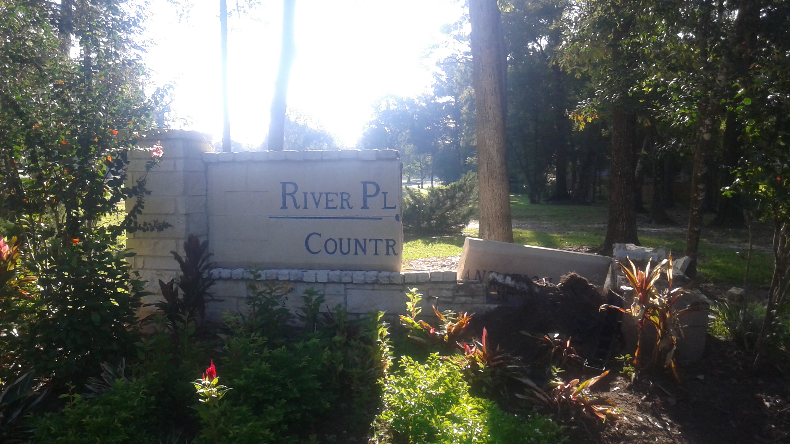 Flood damaged sign for River Plantation Country Club in unincorporated Montgomery County, Texas.